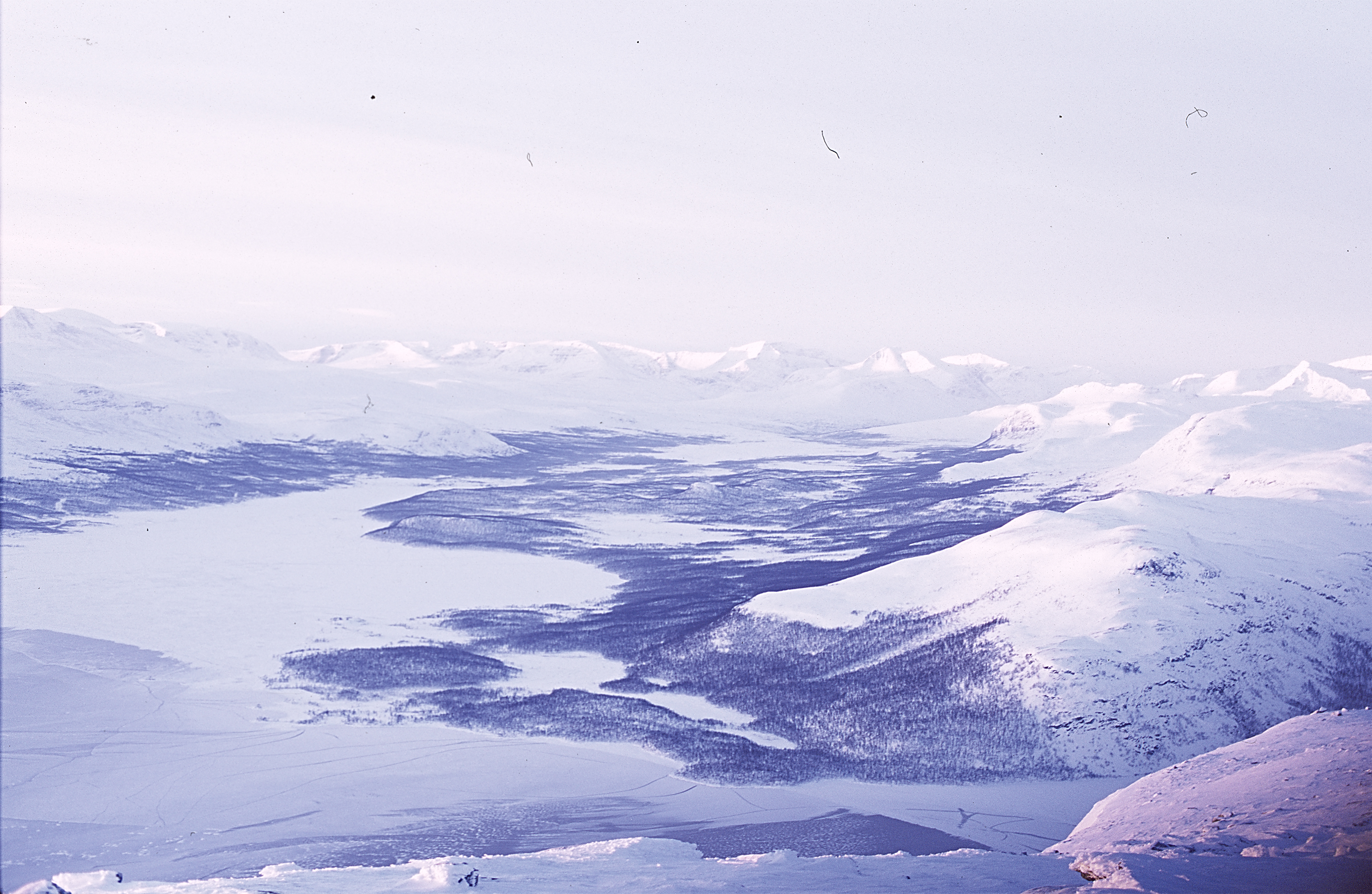 View from Saana Mountain top in direction Sweden / Norway with end of "Kilpisjärvi" = Lake Kilpis Camera Nikon F2 Film Fuji Velvia color-slide